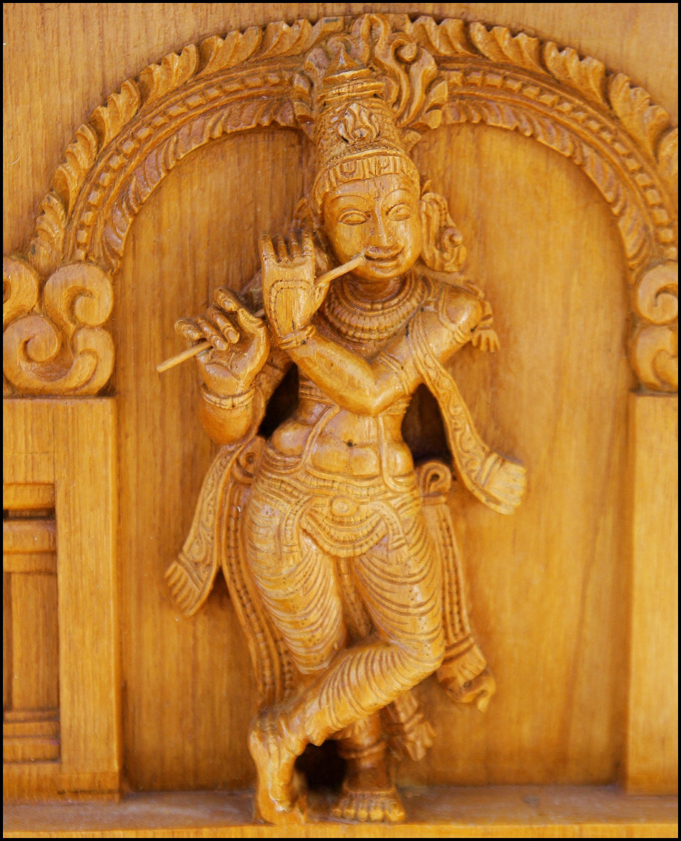 Wood carving detail of the Hindu temple of Greater Chicago, depicting god Krishna